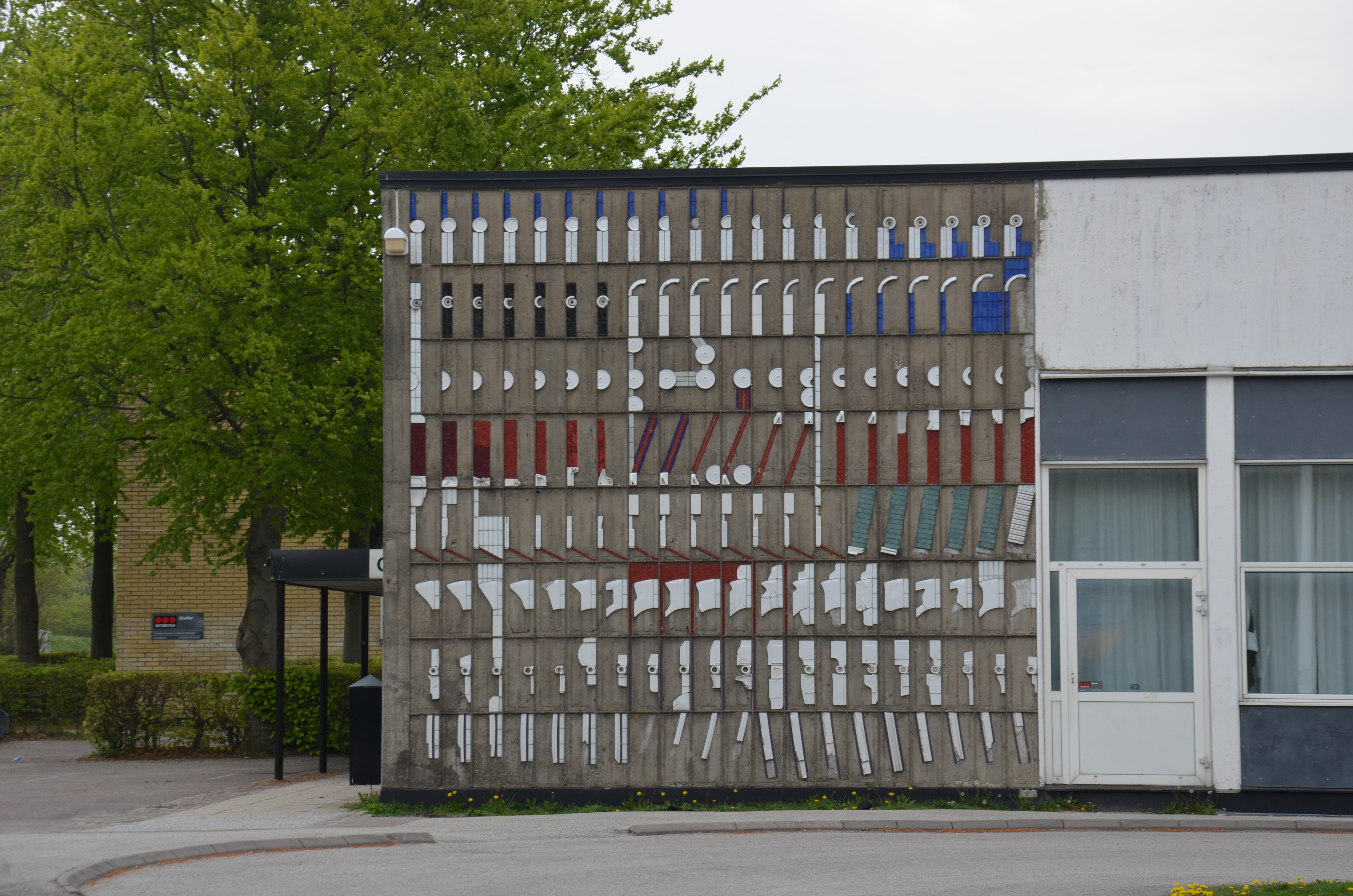 Anders Österlin's Väggrelief,1966, Tunaskolan, Warholms väg, Lund, Sweden